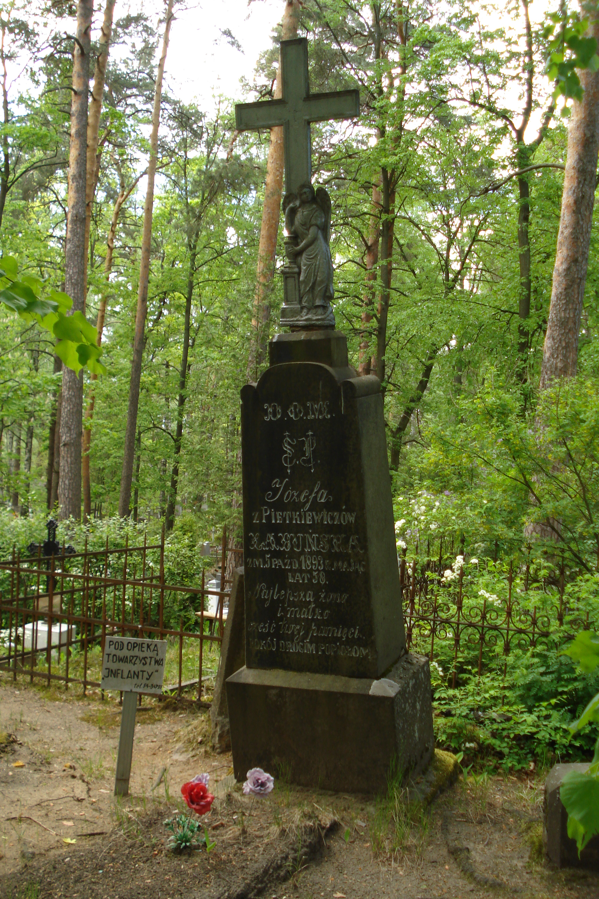 The grave in the Roman Catholic cemetery in Daugavpils